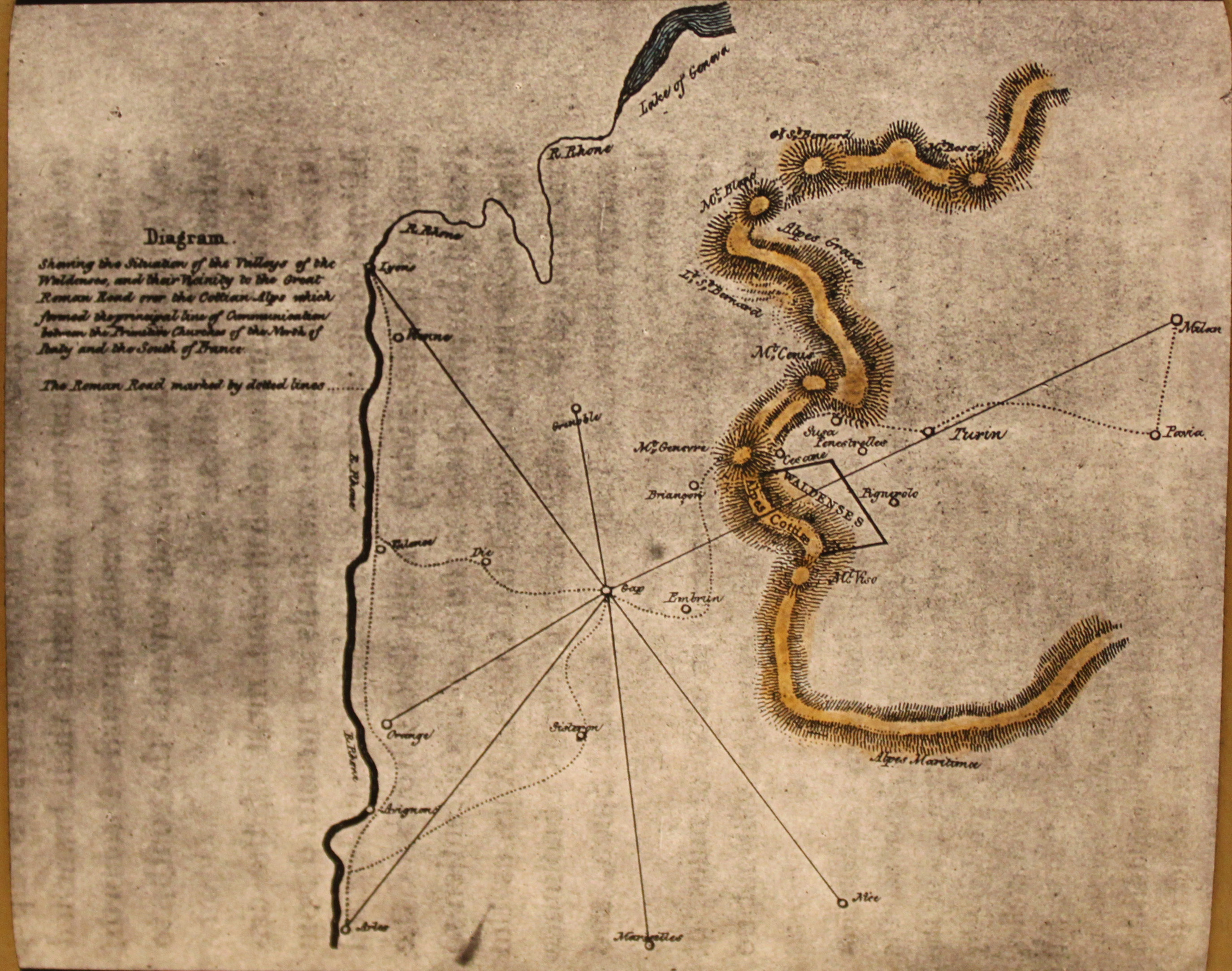 Map of the Waldensian Valley and the Roman Road.